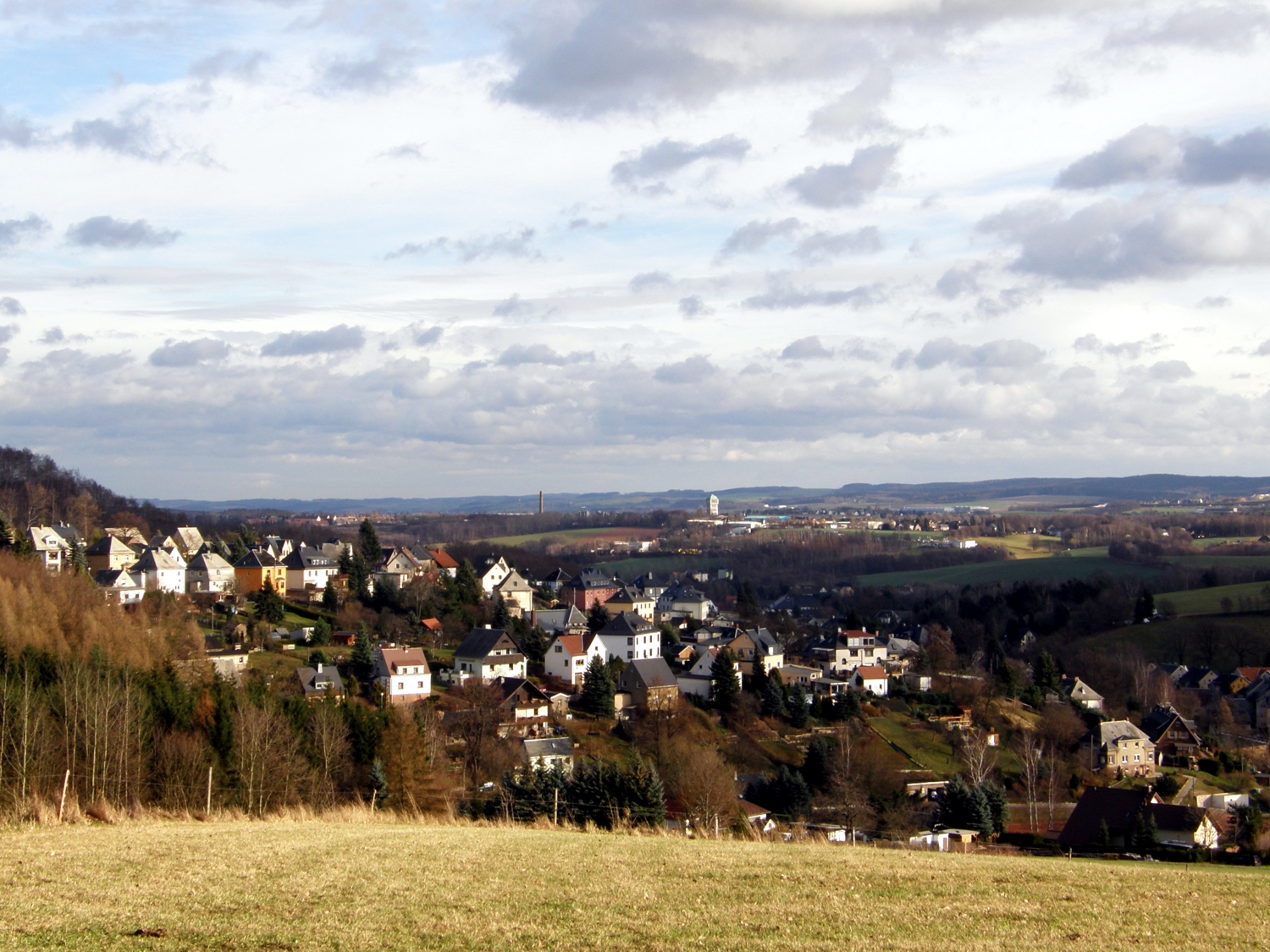 View of Oelsnitz with the part Oberoelsnitz in the foreground and Neuoelsnitz with the tower of the mining museum in the background.